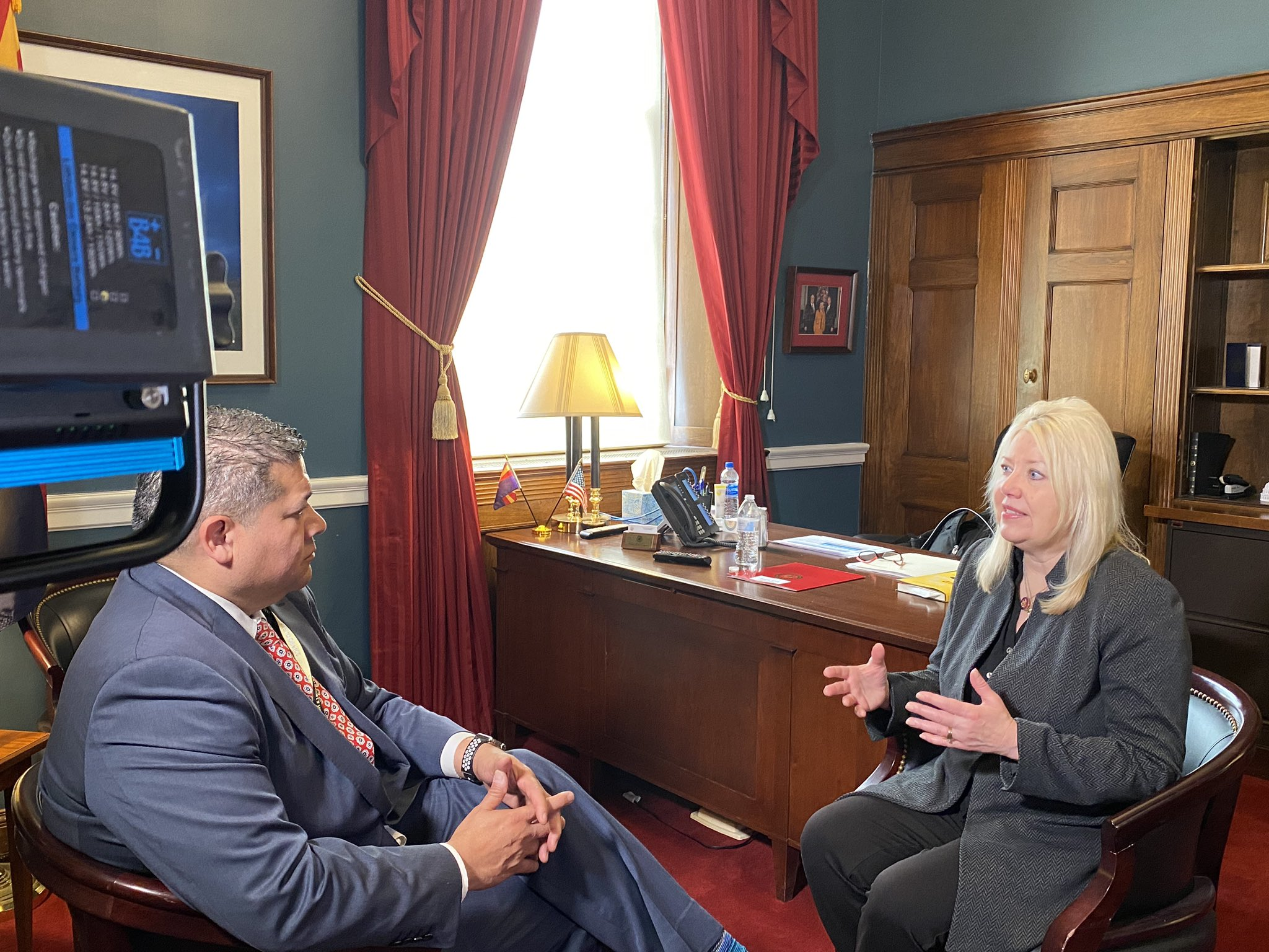 Sitting down with @ErikRosalesNews of @EWTNNewsNightly to discuss coronavirus funding and the Democrats’ attempt to sneak in funding for abortions into their first bill.